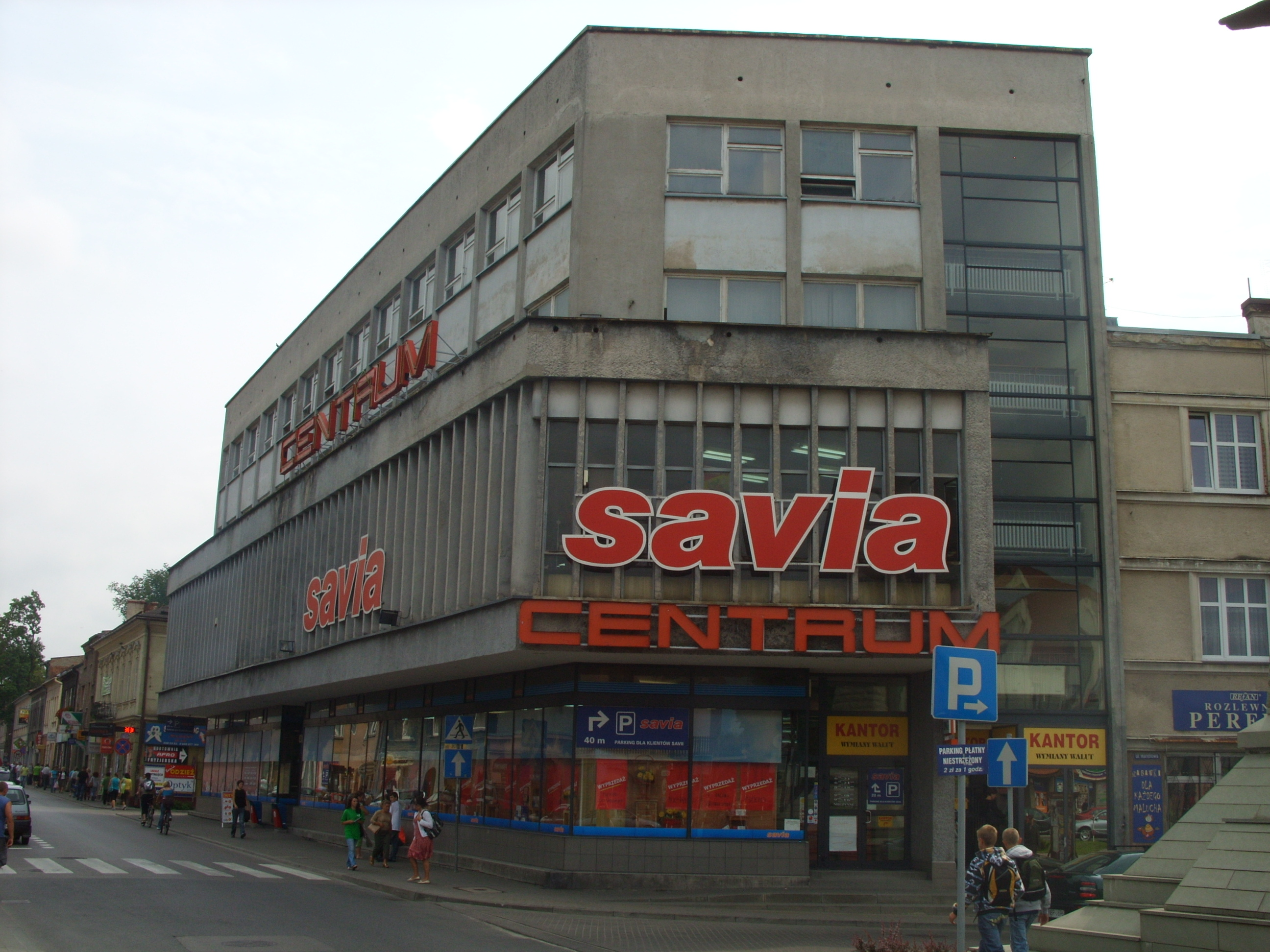 'Centrum' department store in Żywiec (Poland)